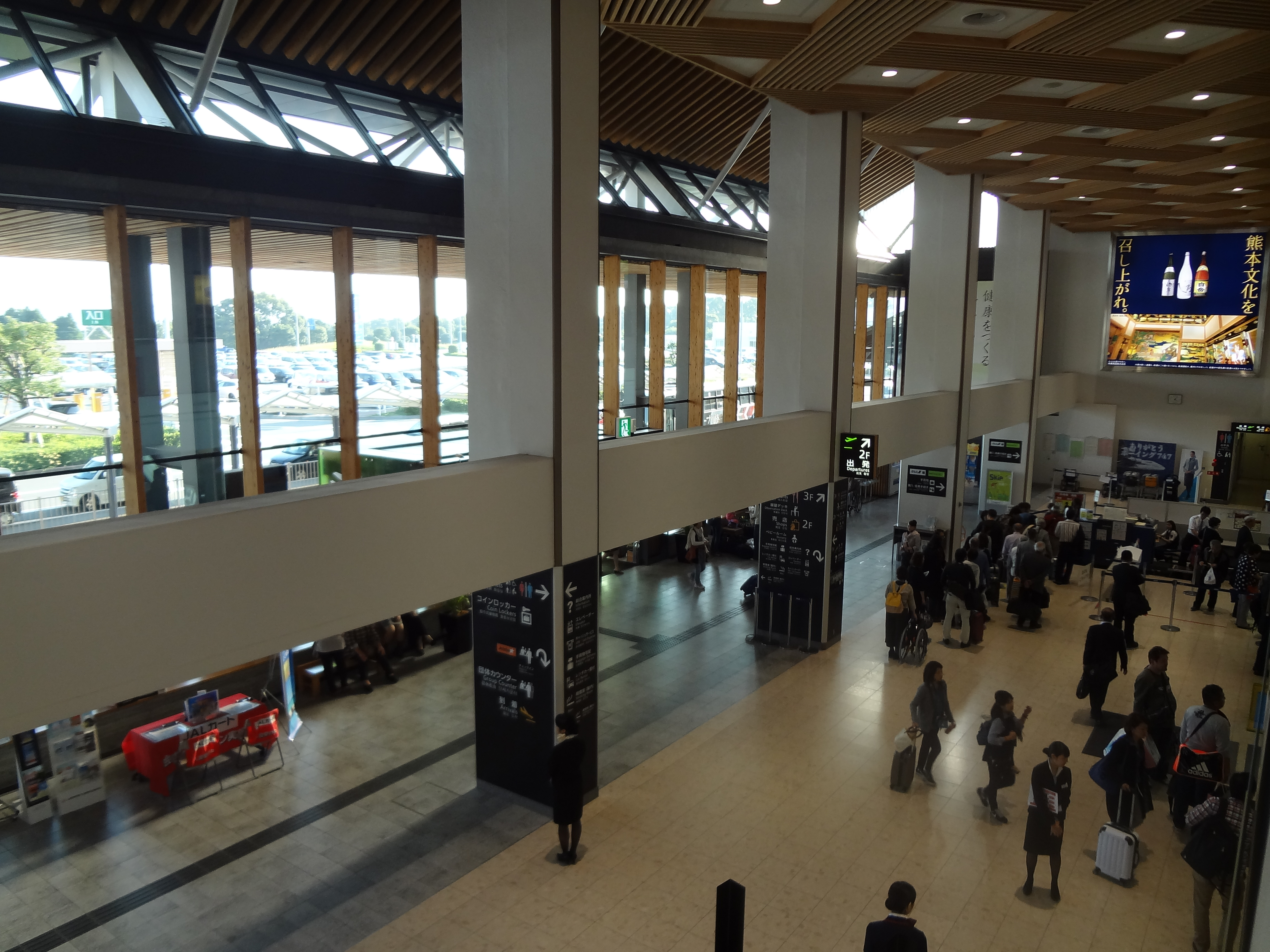 Kumamoto Airport (KMJ) Domestic Terminal, 1F Check-in Area (taken from 2F)